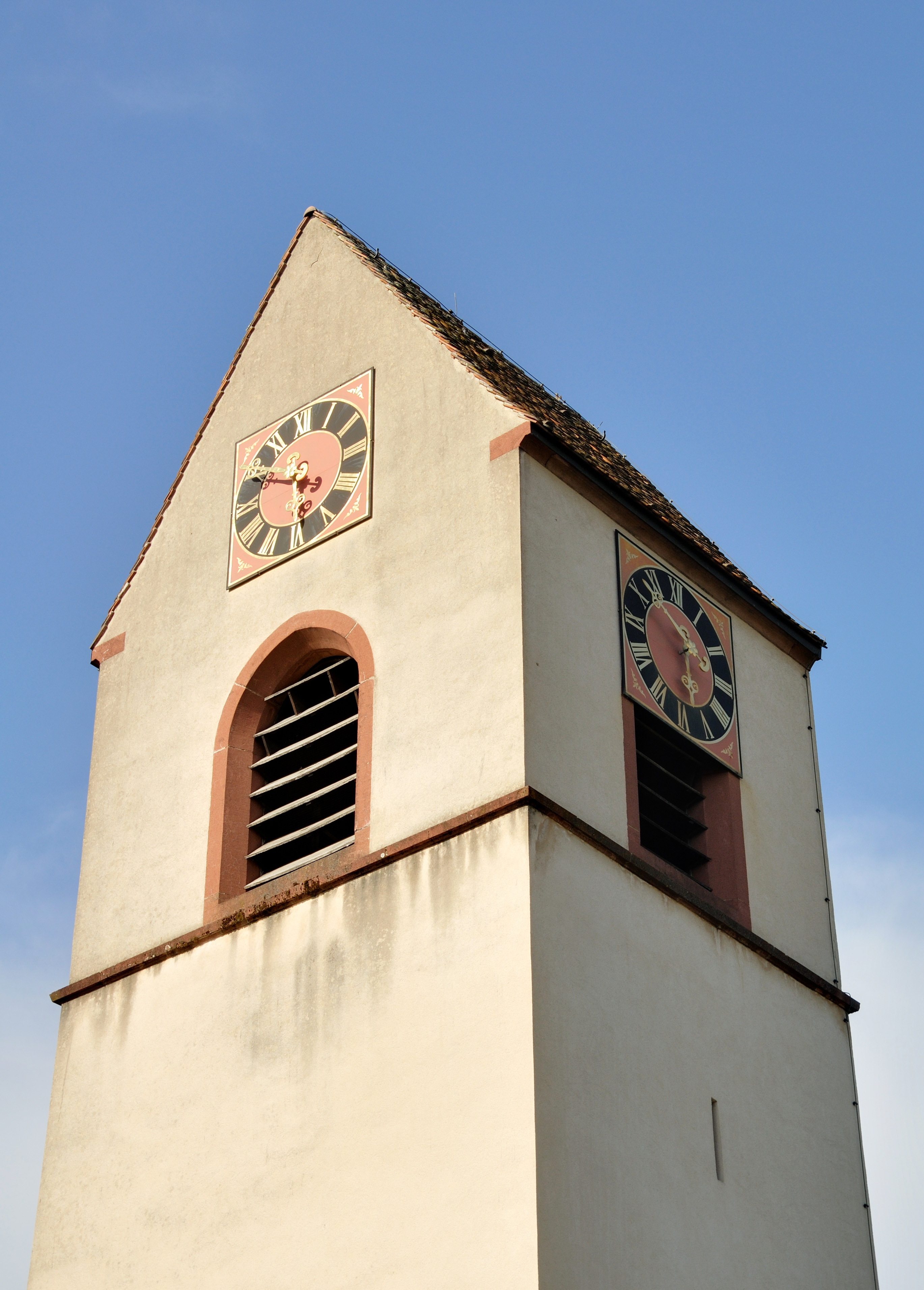 Efringen: Protestant Church